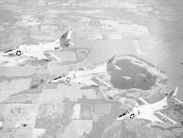 Three U.S. Navy Douglas A-4B Skyhawks from Attack Squadron VA-44 Hornets in flight. Since 1963, VA-44 was based at Naval Air Station Cecil Field, Florida (USA).